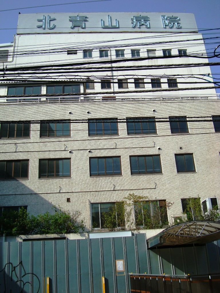 Former Kita-aoyama Hospital building, Aoyama, Tokyo